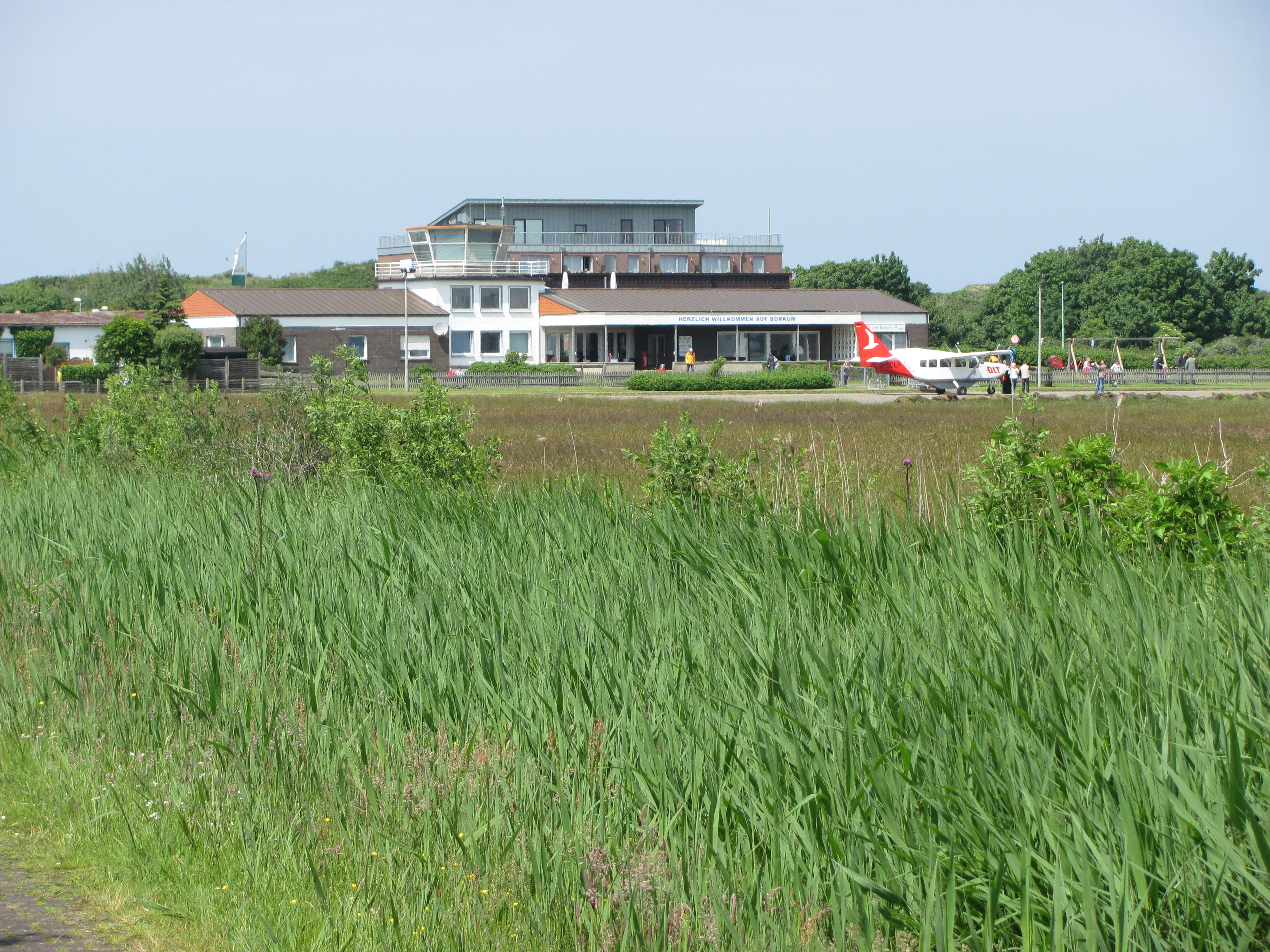 Airfield Borkum